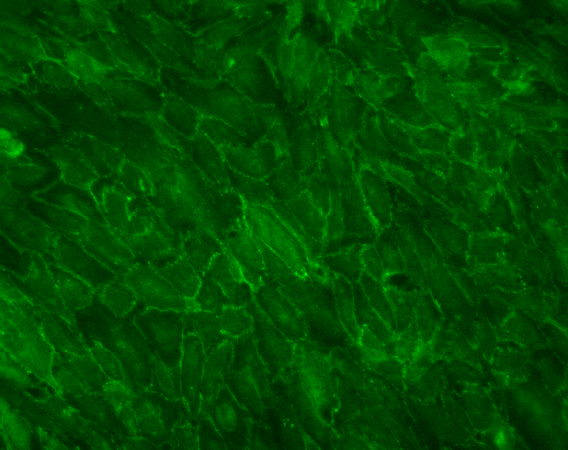 b.catenin in human endothelial cells